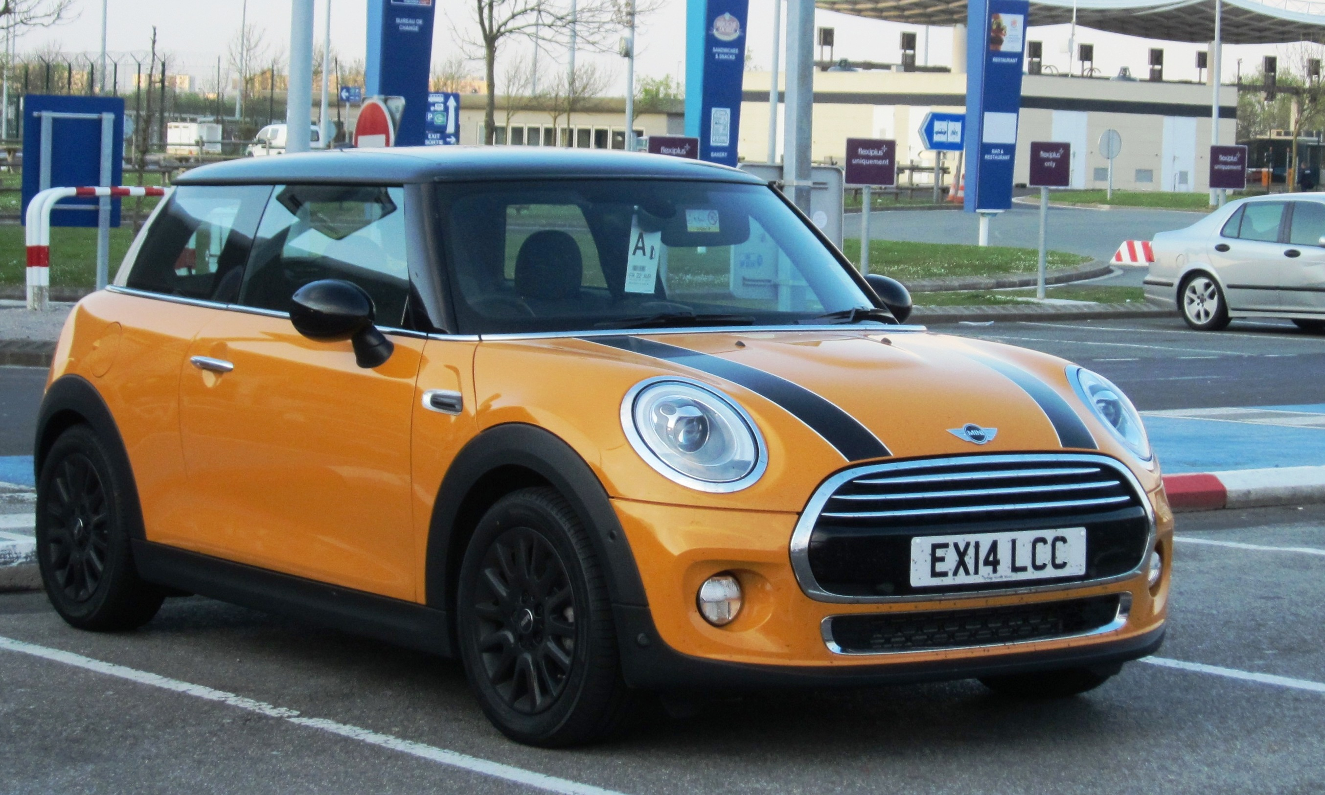 Mini 1500 (petrol/gasoline) in France License plate has been changed for anonymisation purposes. Year code remains correct, however.